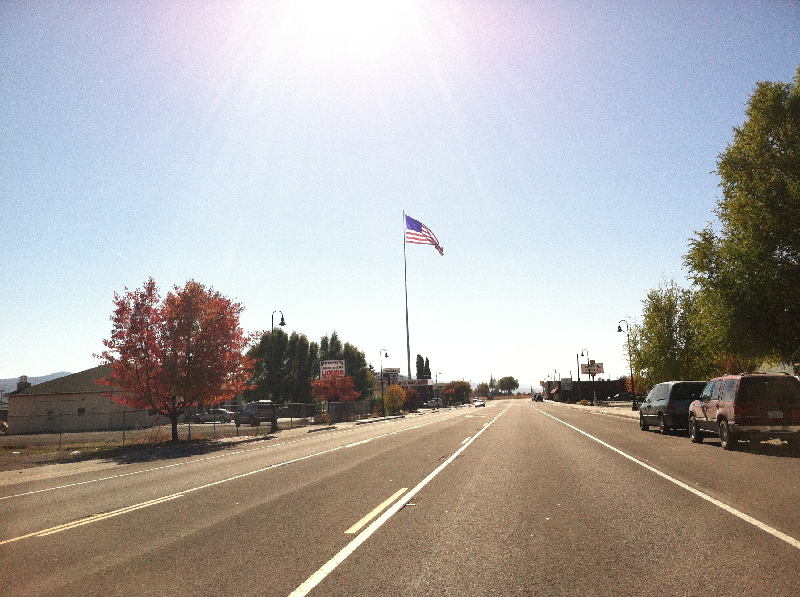 Highway 97 through Dorris, CA